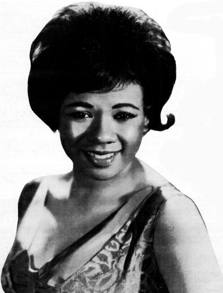 Trade ad for Barbara Lewis's single "Don't Forget About Me". To better adapt it to his respective Wikipedia article, the ad was cropped and cleaned in a graphics editing program. The original can be viewed on the source below.